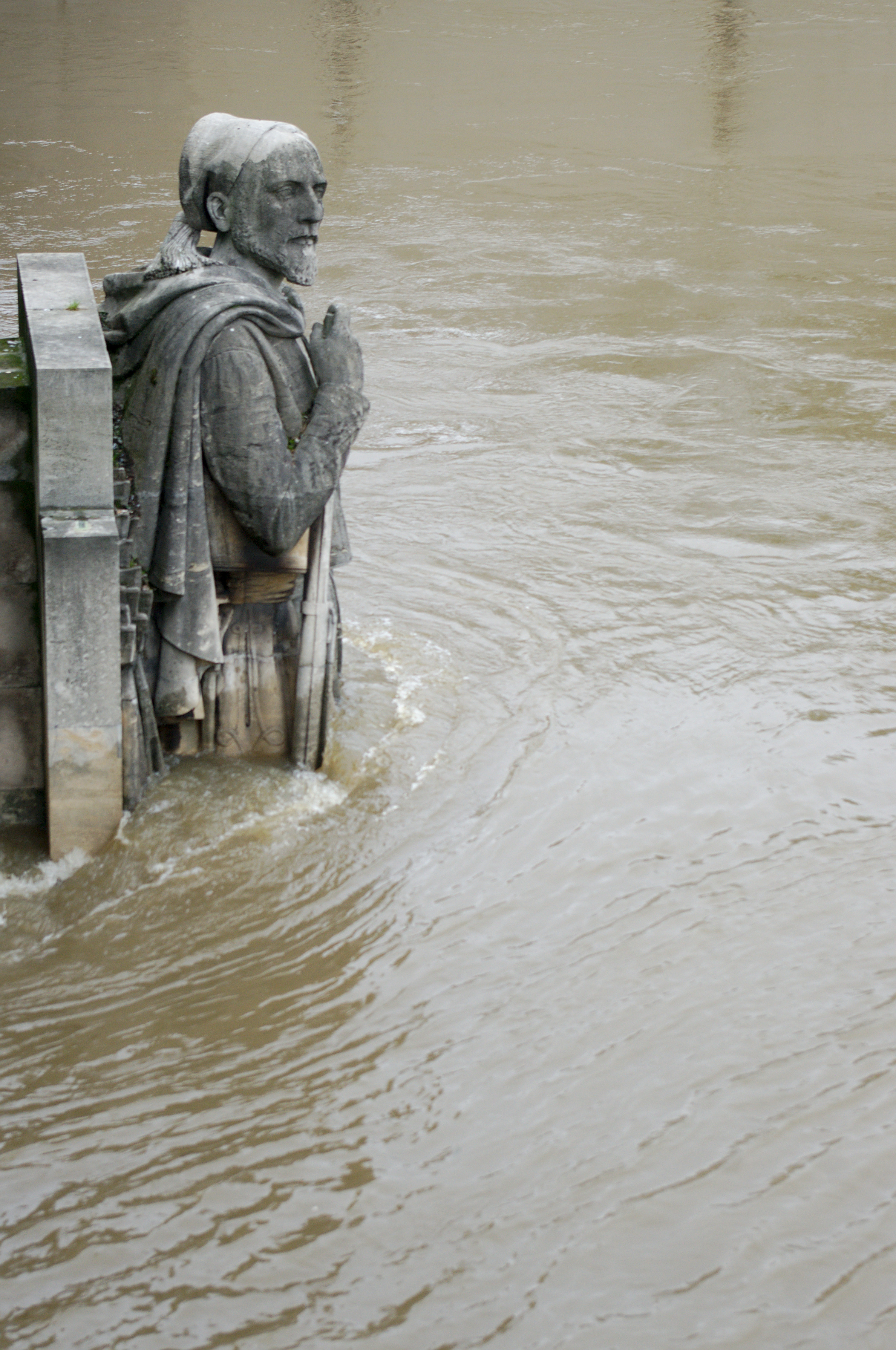 The pont de l'Alma Zouave statue, june the 3rd, 2016